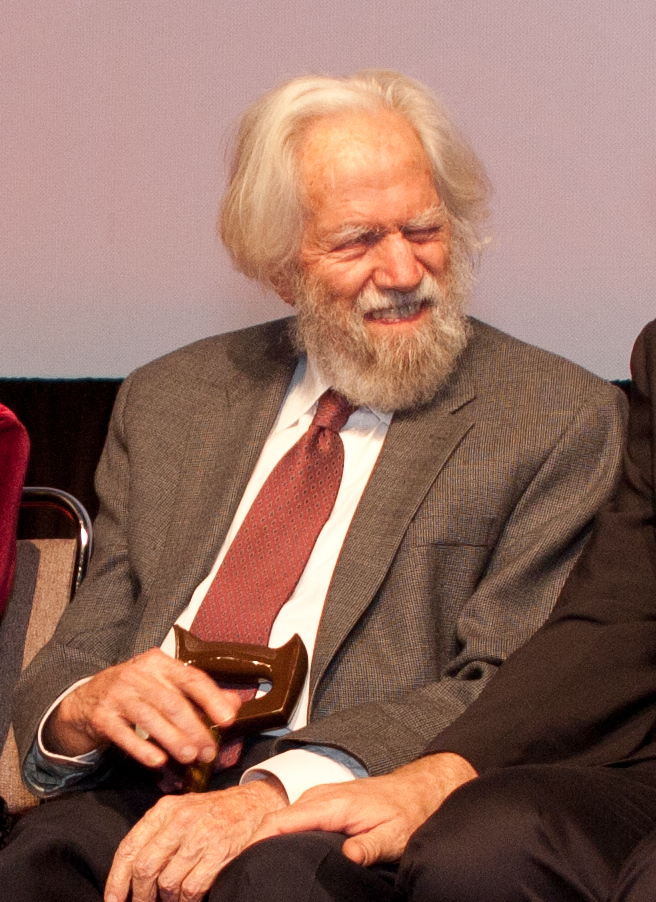 Dr. Alexander 'Sasha' Shulgin